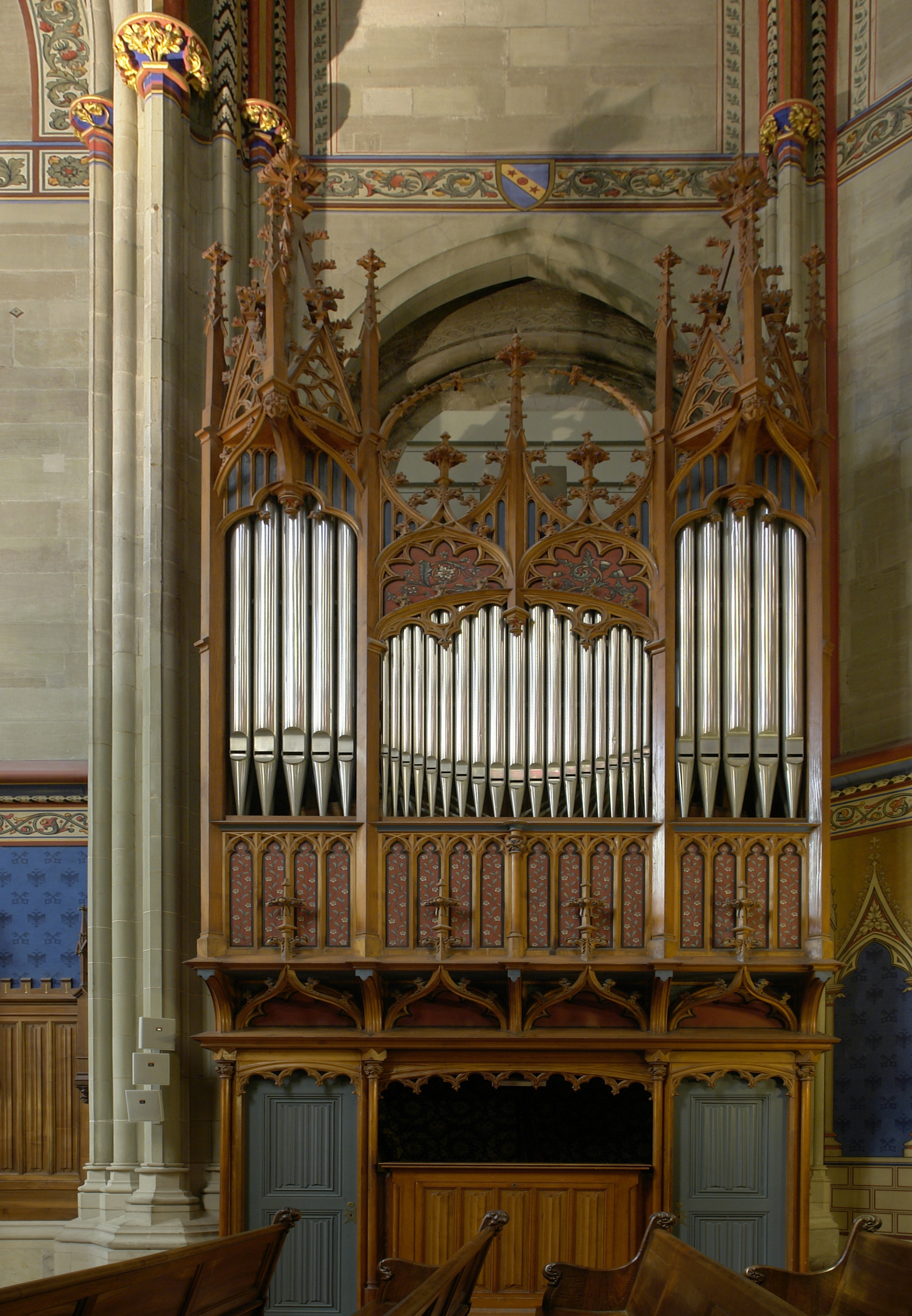 Organ of the Maccabees Chapel, Saint-Pierre cathedral, Geneva, Switzerland.